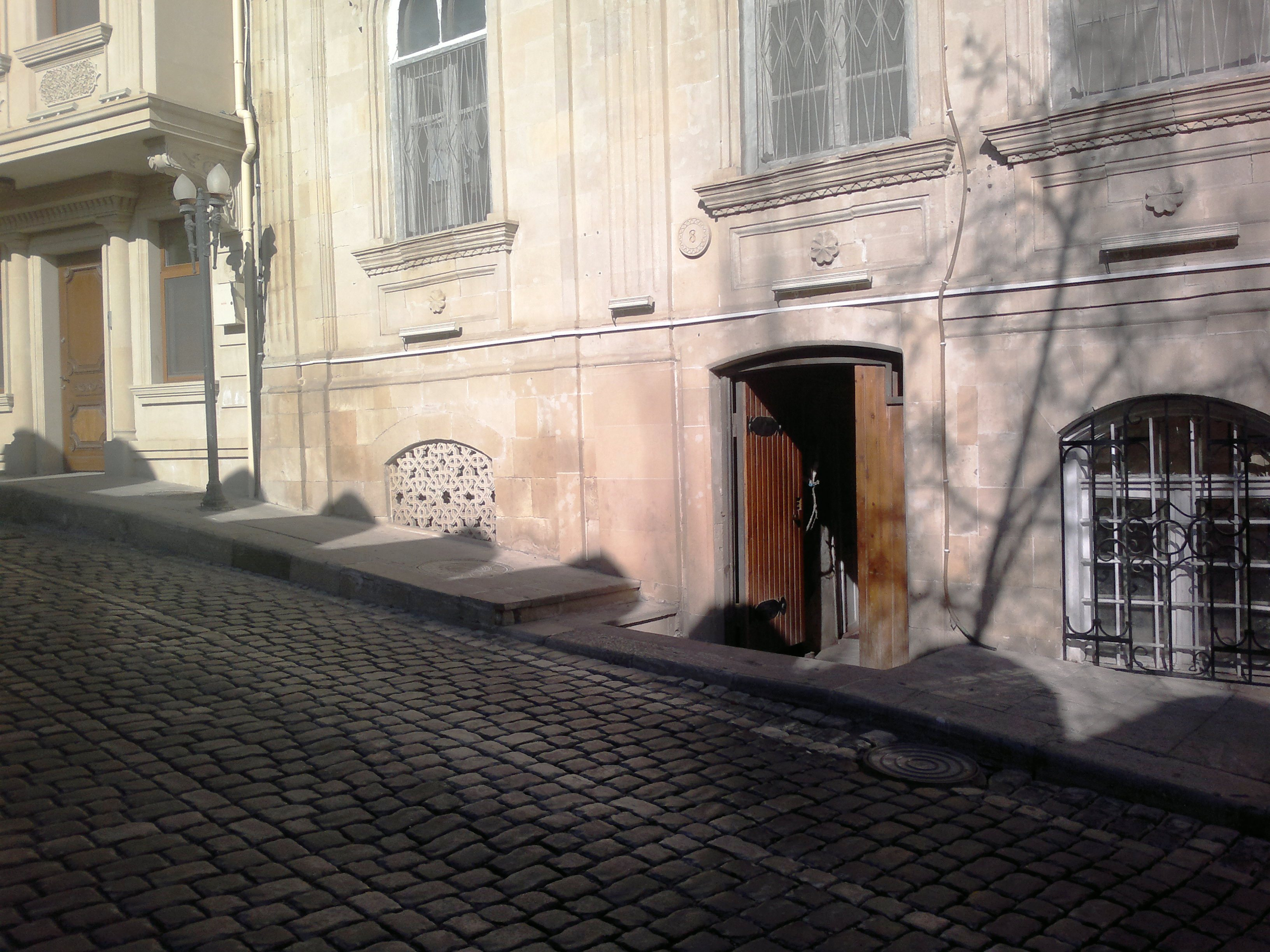 Place in Ichery Sheher (old part of Baku), where Nikulin and Mironov fell with the "Chyort poberyi".